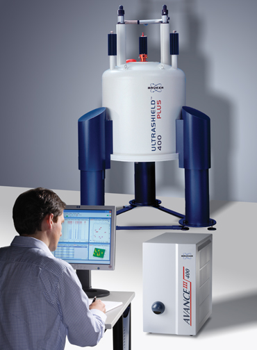 400 MHz NMR system with NanoBay spectrometer